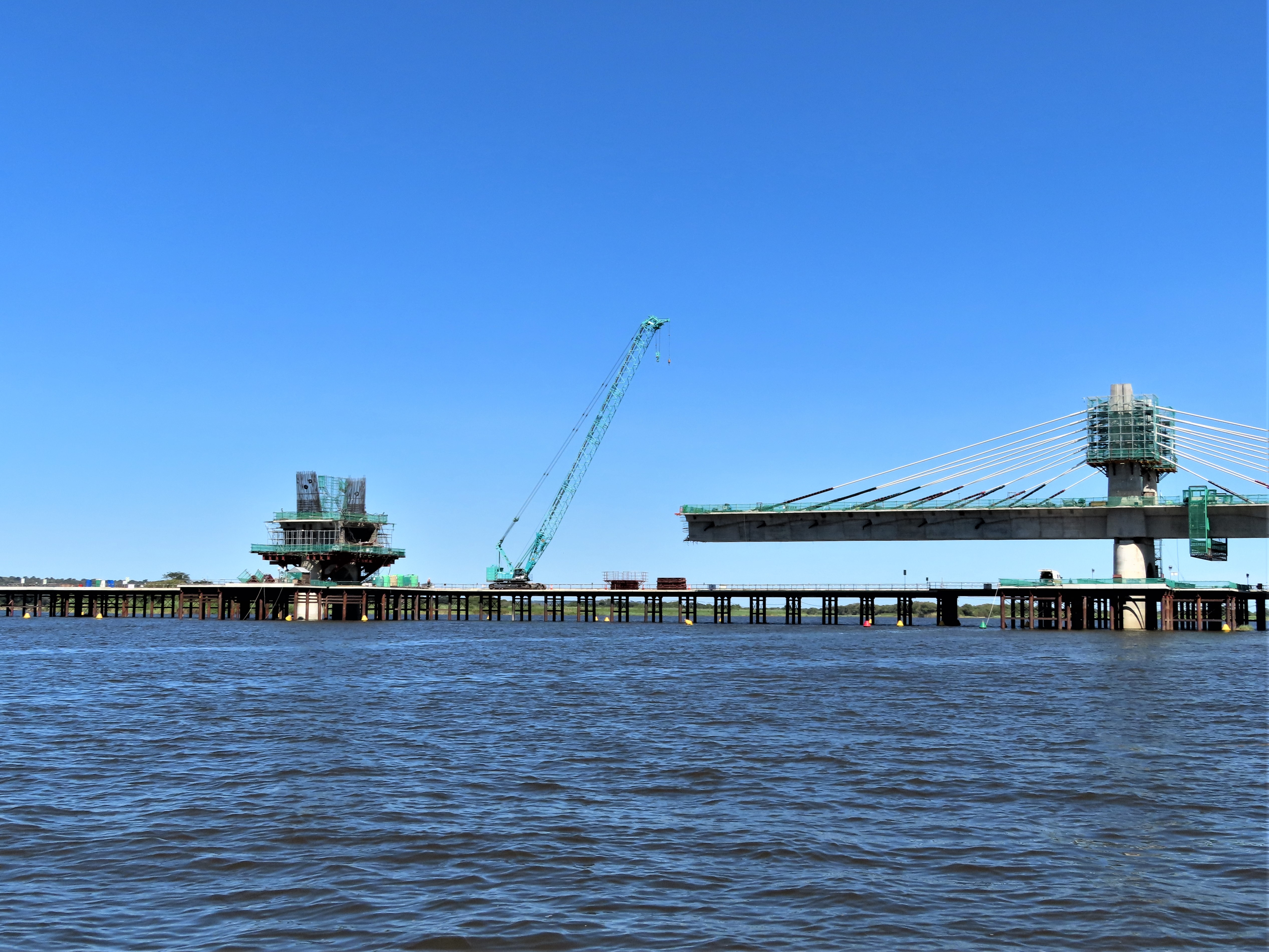 The Zambezi River bridge at Kazungula under construction, March 2019